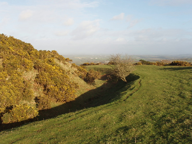 Warbstow Bury. This hillfort is a barrow with several rings of earth mound fortification, large enough to hold livestock. It is in the care of North Cornwall District Council (their web page includes an aerial photo). Their information board describes it as the second largest, and best preserved, Iron Age hill fort in Cornwall. It also has verses from "Trebarrow" by Robert Stephen Hawker including: "Did the wild blast of battle sound, Of old, from yonder lonely mound? Race of Pendragon! did ye pour, On this dear earth, your votive gore?". (See Anglo Celtic Poetry for other verses).